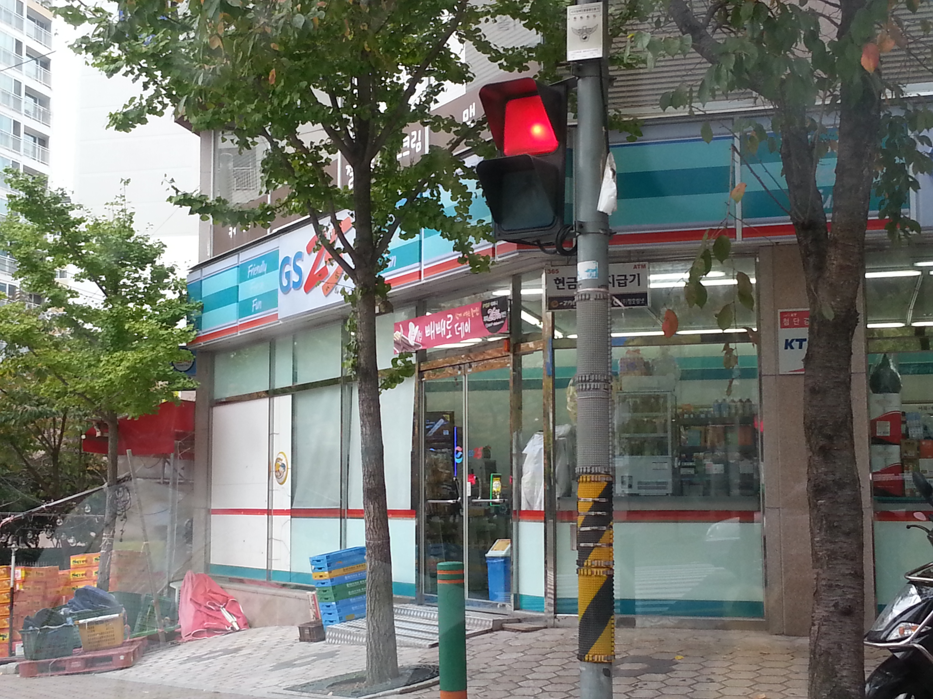 A red-lighting Korean road sign. + GS25 (a convenient store in Korea)